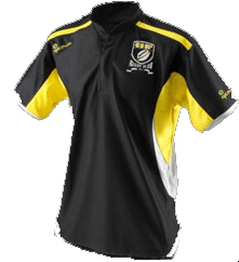 Shirt CRUP